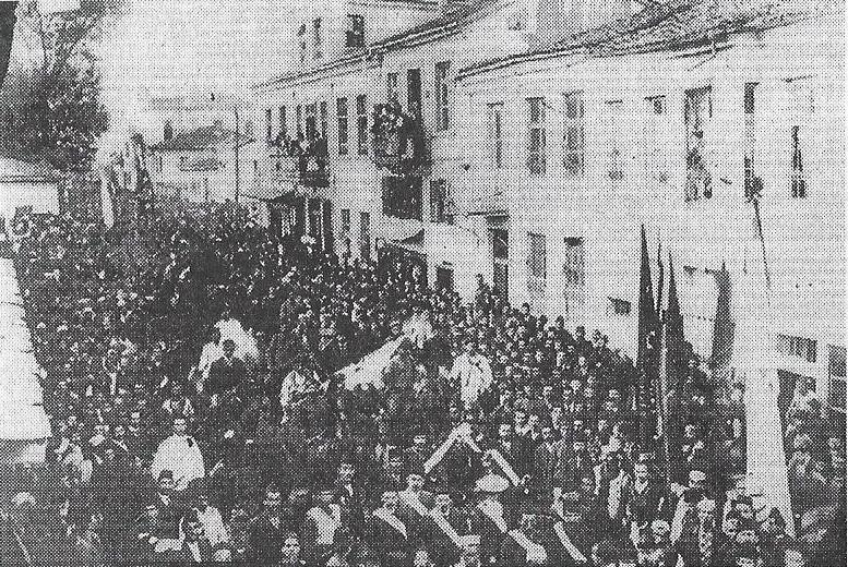 Macedonian revolutionaries entering Bitola during Young Turk Revolution in 1908